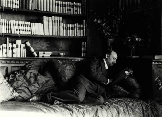 Mario Nunes Vais (1856-1932), "Gabriele D'Annunzio reading".